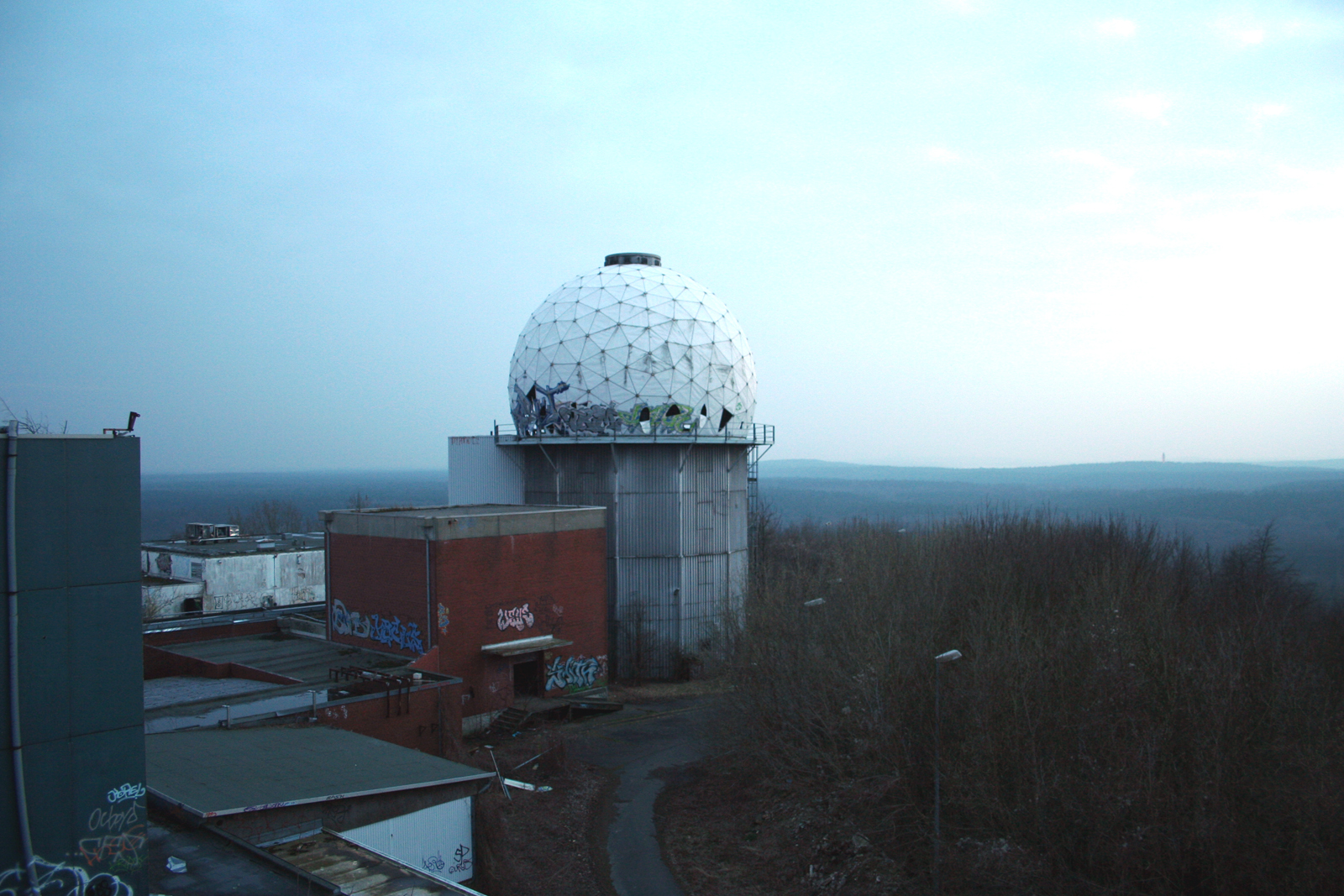 Teufelsberg buildings - abandoned, and Skyline